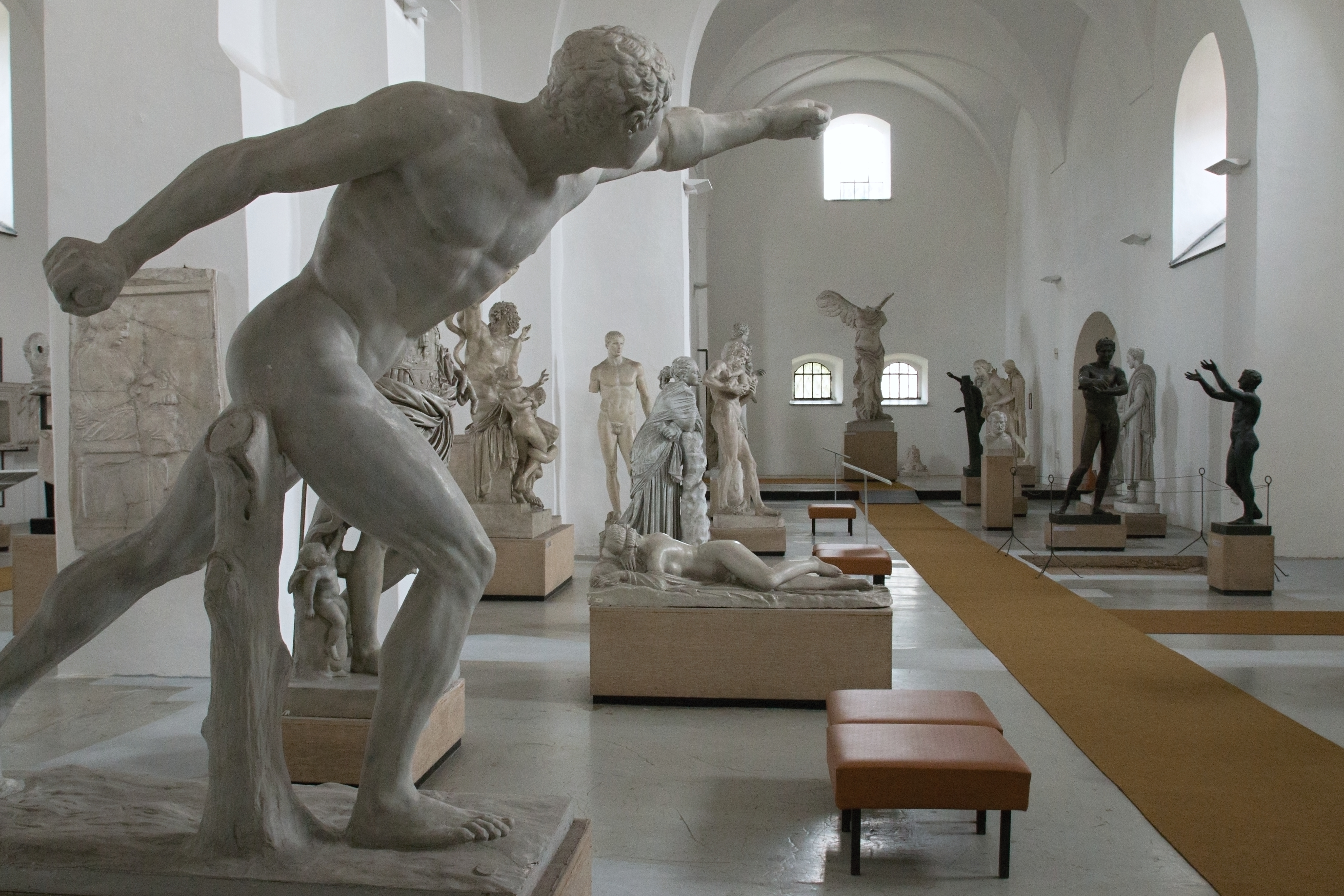 View of part of the Cast Collection of Ancient Sculpture in the former Franciscan monastery church in Hostinné. Plaster casts, mostly made in the 19th century. (Part of the Cast Collection of Ancient Sculpture of the Institute of Classical Archaeology at the Faculty of Arts, Charles University in Prague.)